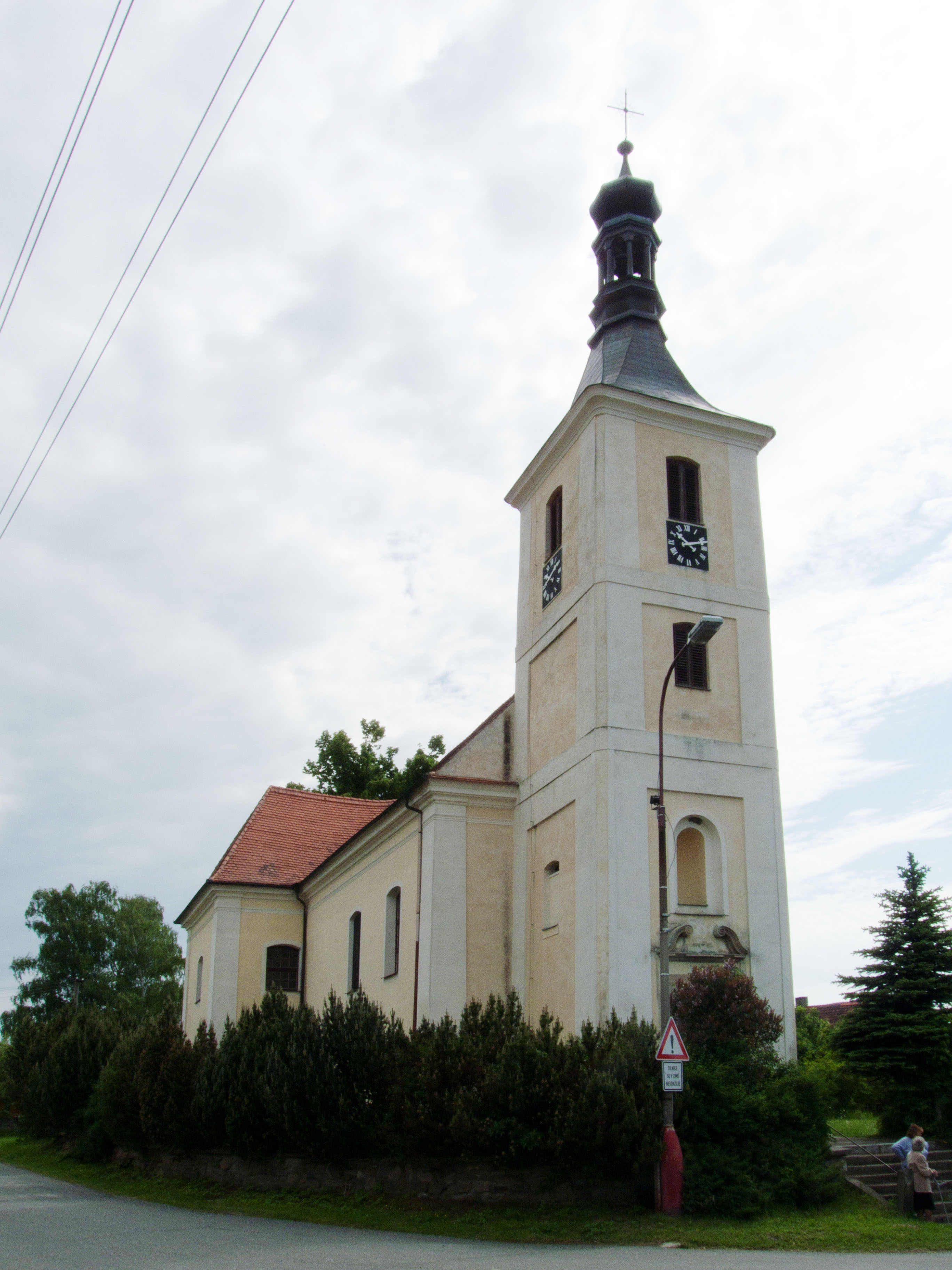 Saint James Church in the village of Tučapy, Tábor District, Czech Republic. Česky: Kostel svatého Jakuba Většího v obci Tučapy v okrese Tábor.